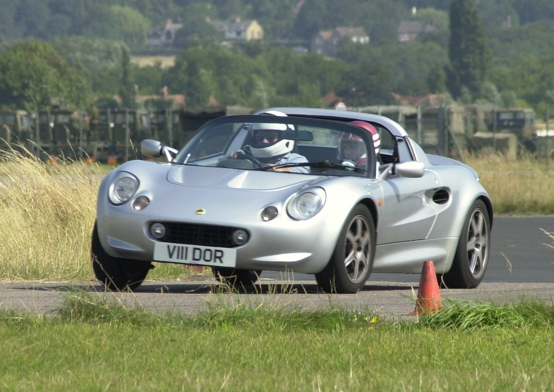 Derrick Rowe, Own Car